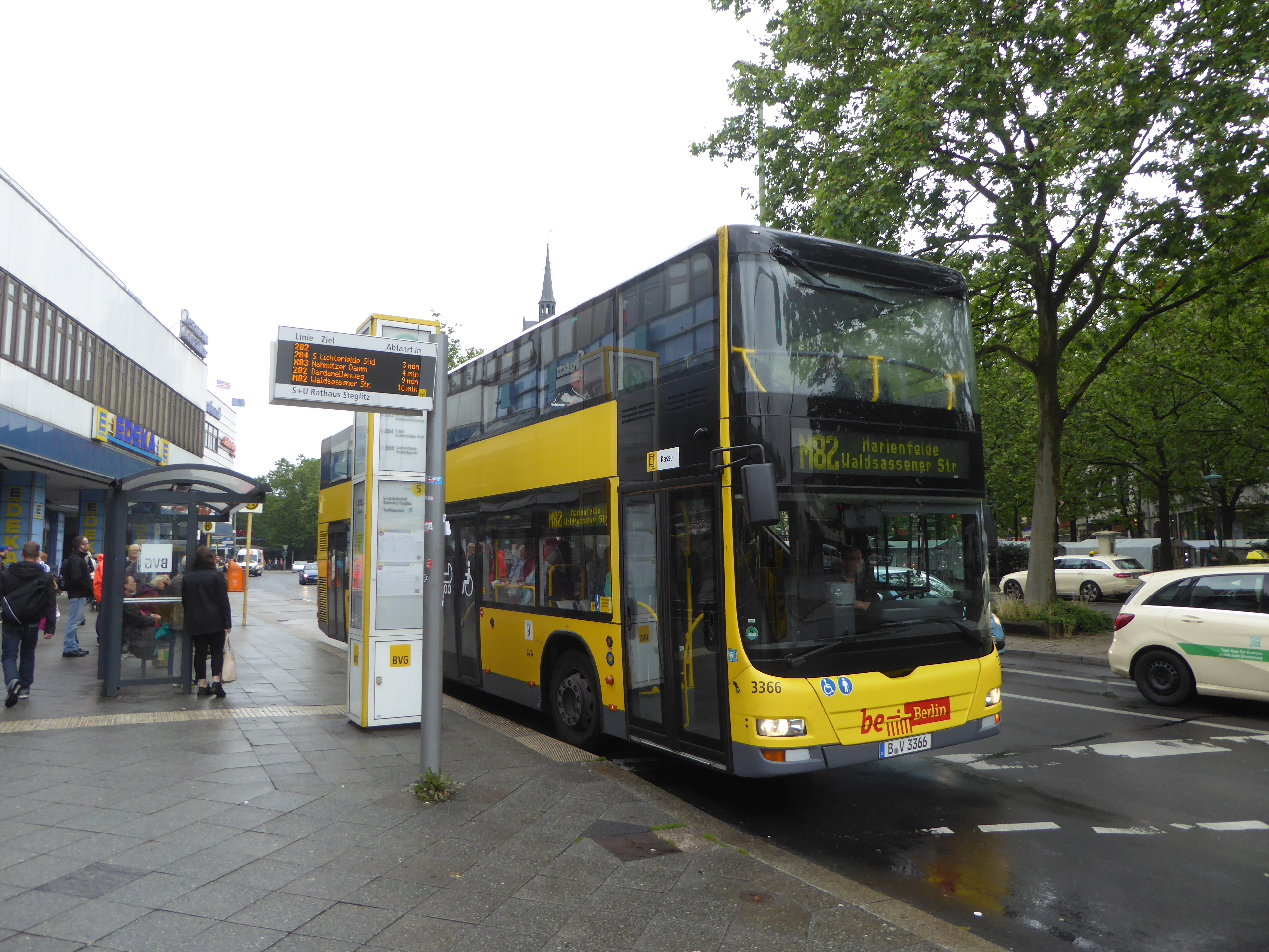 BVG bus line M82 on Albrechtstraße at Rathaus Steglitz in Berlin-Steglitz.